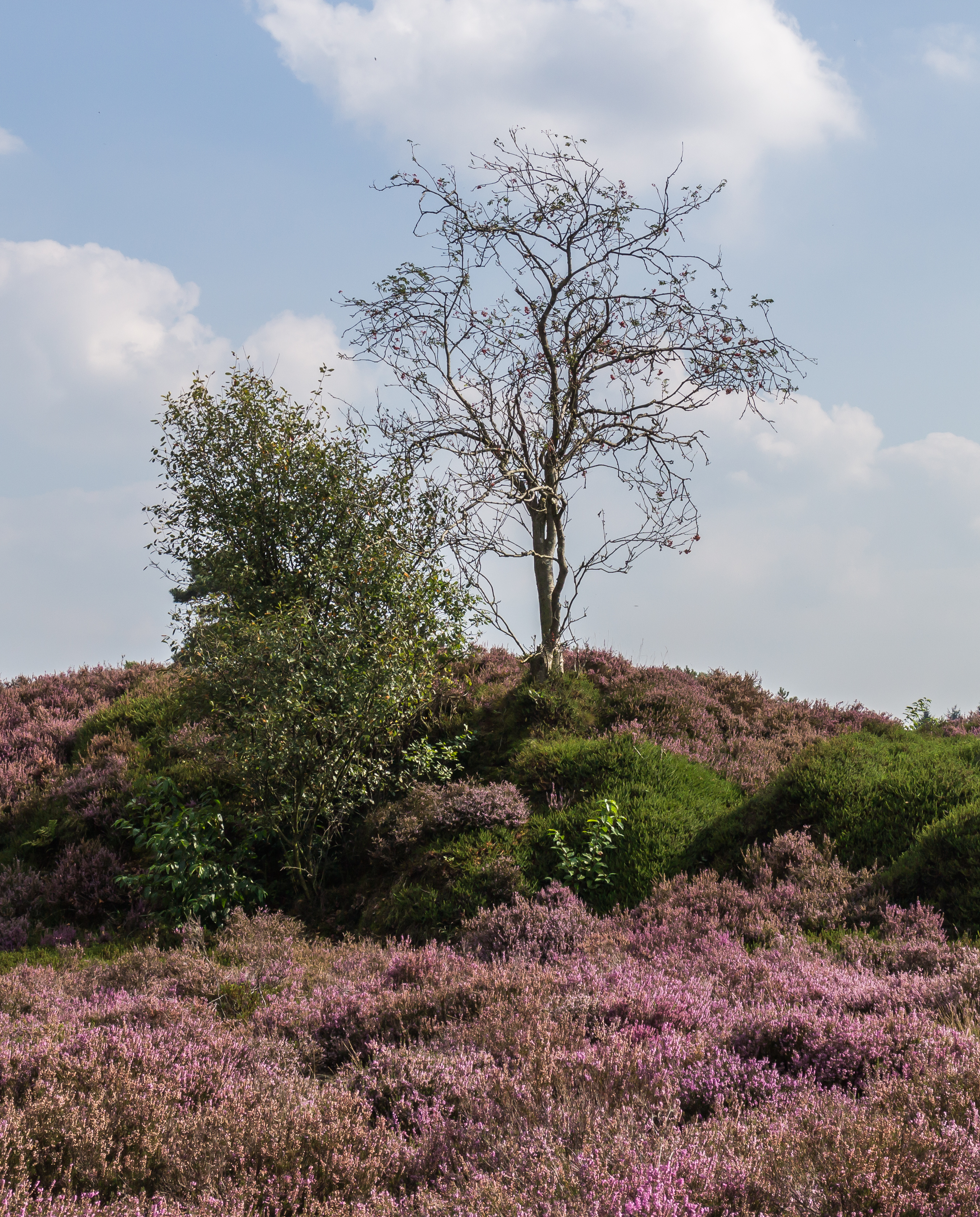 Walking through flowering heaths and shifting sands of Schaopedobbe (Schapenpoel) in the Netherlands.